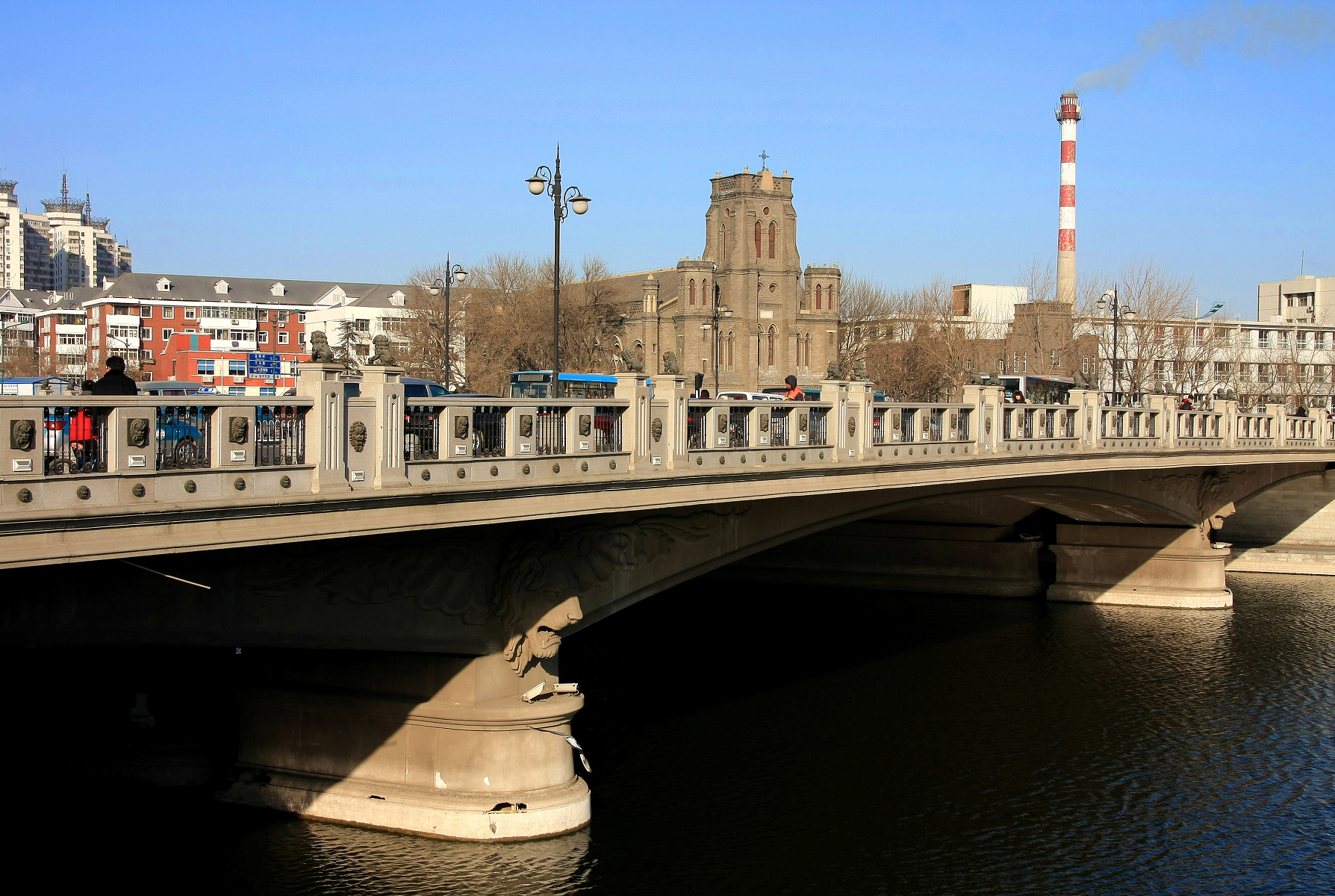 Lion Bridge in Tianjin